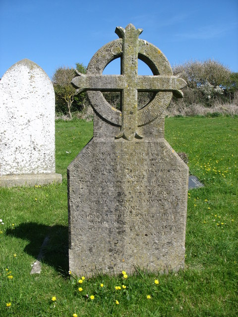 Bedd Nicander This is the grave of Rev Morris Williams, better known as Nicander, poet and rector of Llanrhuddlad w Llanfflewin w Llanrhwydus between 1859 and 1874. He was a pioneer of the Anglo-Catholic Oxford Movement in North Wales.